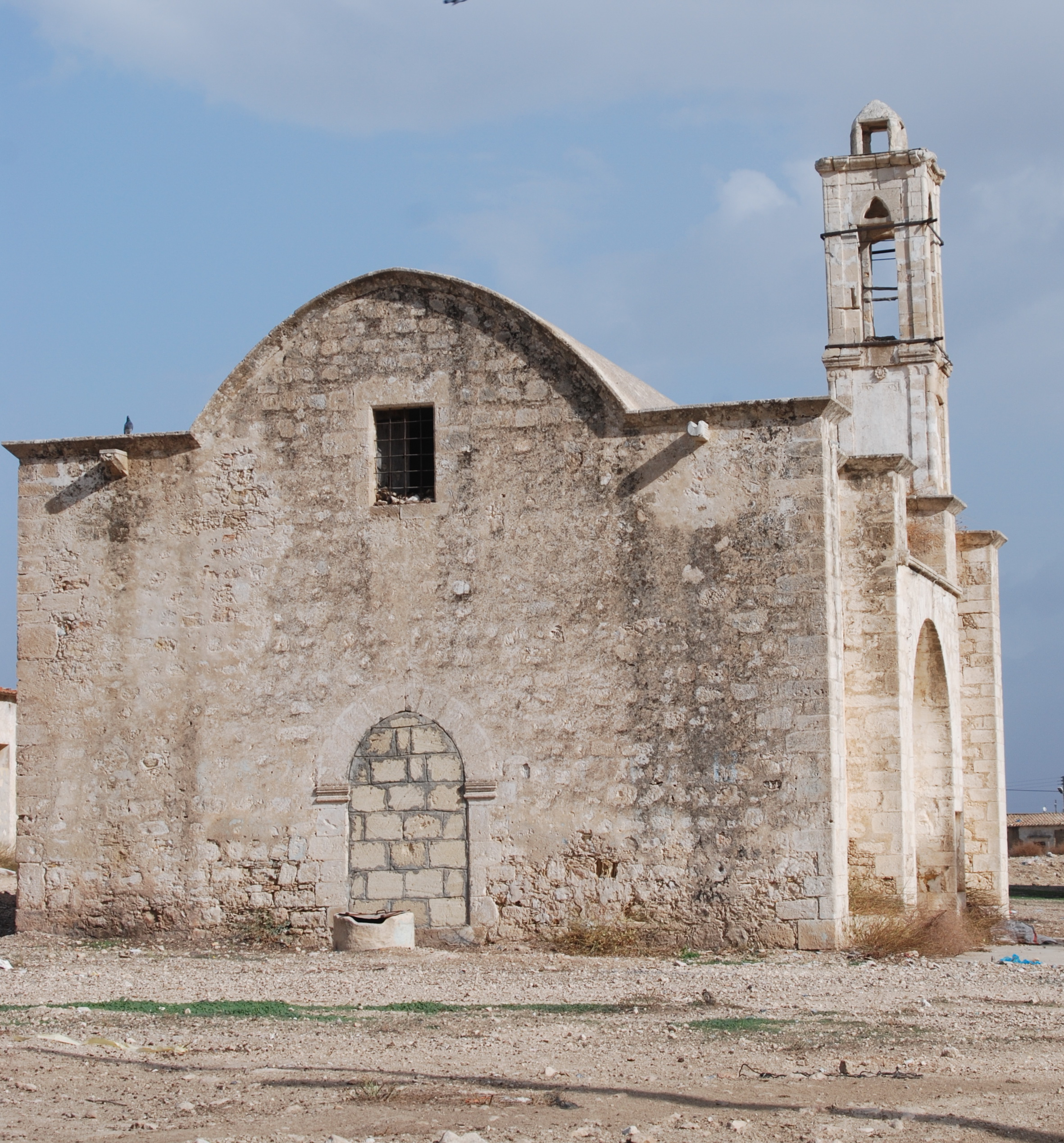 Church